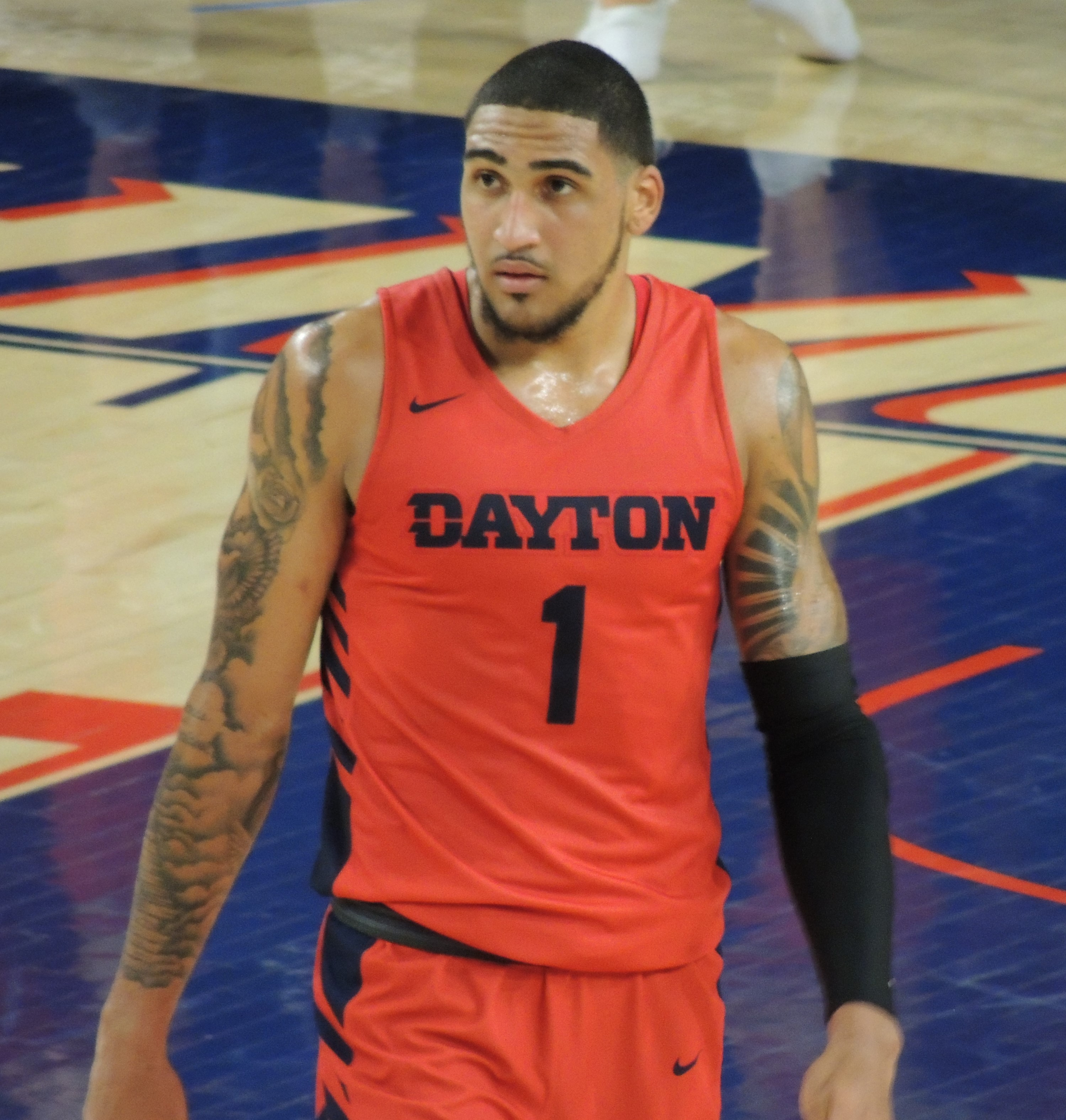 American college basketball player Obi Toppin in a game at the University of Richmond on January 25, 2020